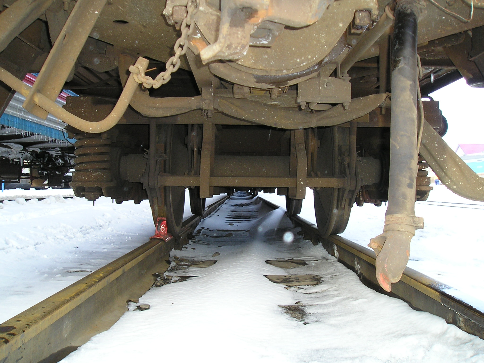 Inconsistency between cape gauge (1067 mm) on Sakhalin Island and wheelset russian gauge 1520 mm.